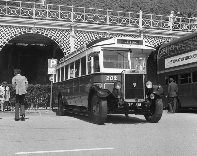 HCVC Rally, 1977. A Leyland Lion, formerly operated by Lancashire United Transport, a company which in its early years operated trams, and later trolleybuses, and in 2009 is still in existence as part of the Transdev group.